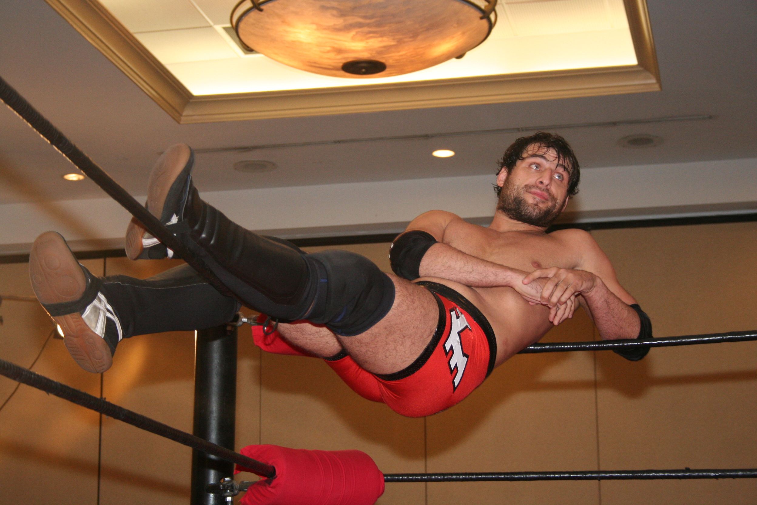 Chase Owens lying across the turnbuckle at the Mid-Atlantic Fanfest in August 2014.